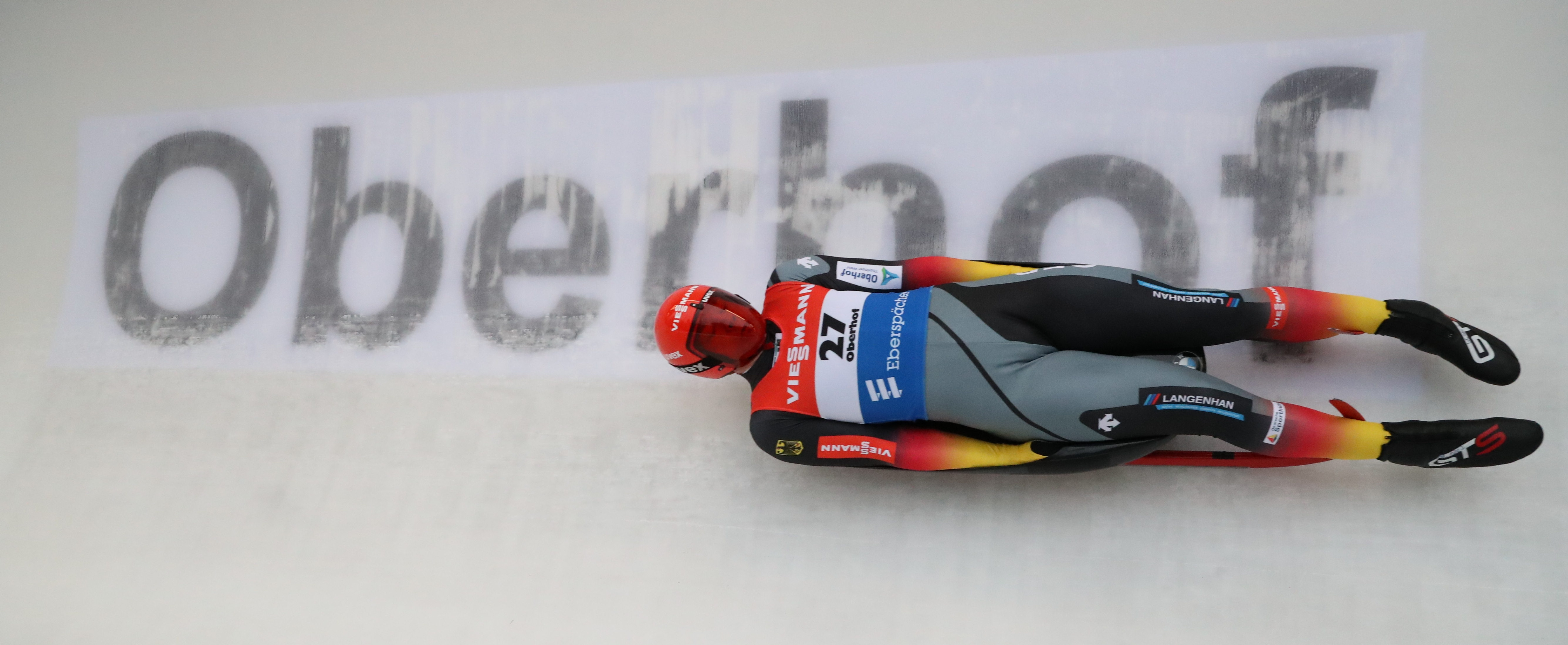 Men's World Cup at the 2019/20 Oberhof Luge World Cup